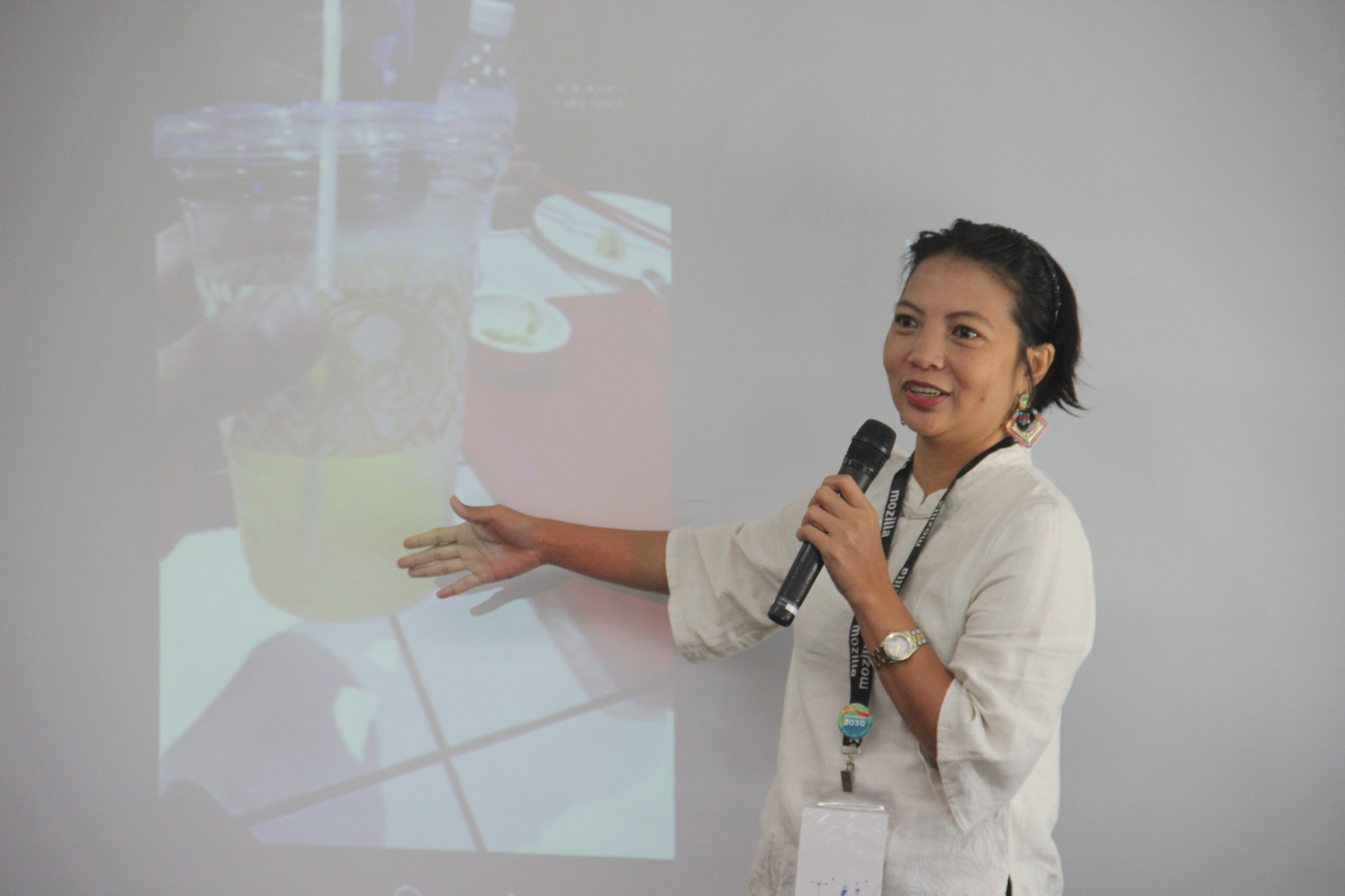 ESEAP Strategy Summit Day 1 - Vanj facilitating